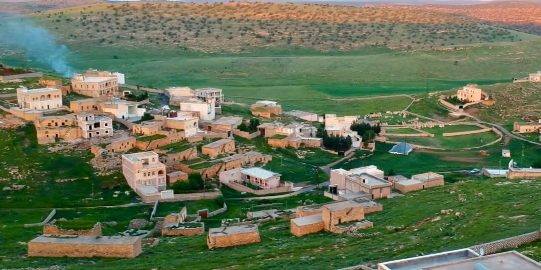 Yazidi village Kefnas in Turkey